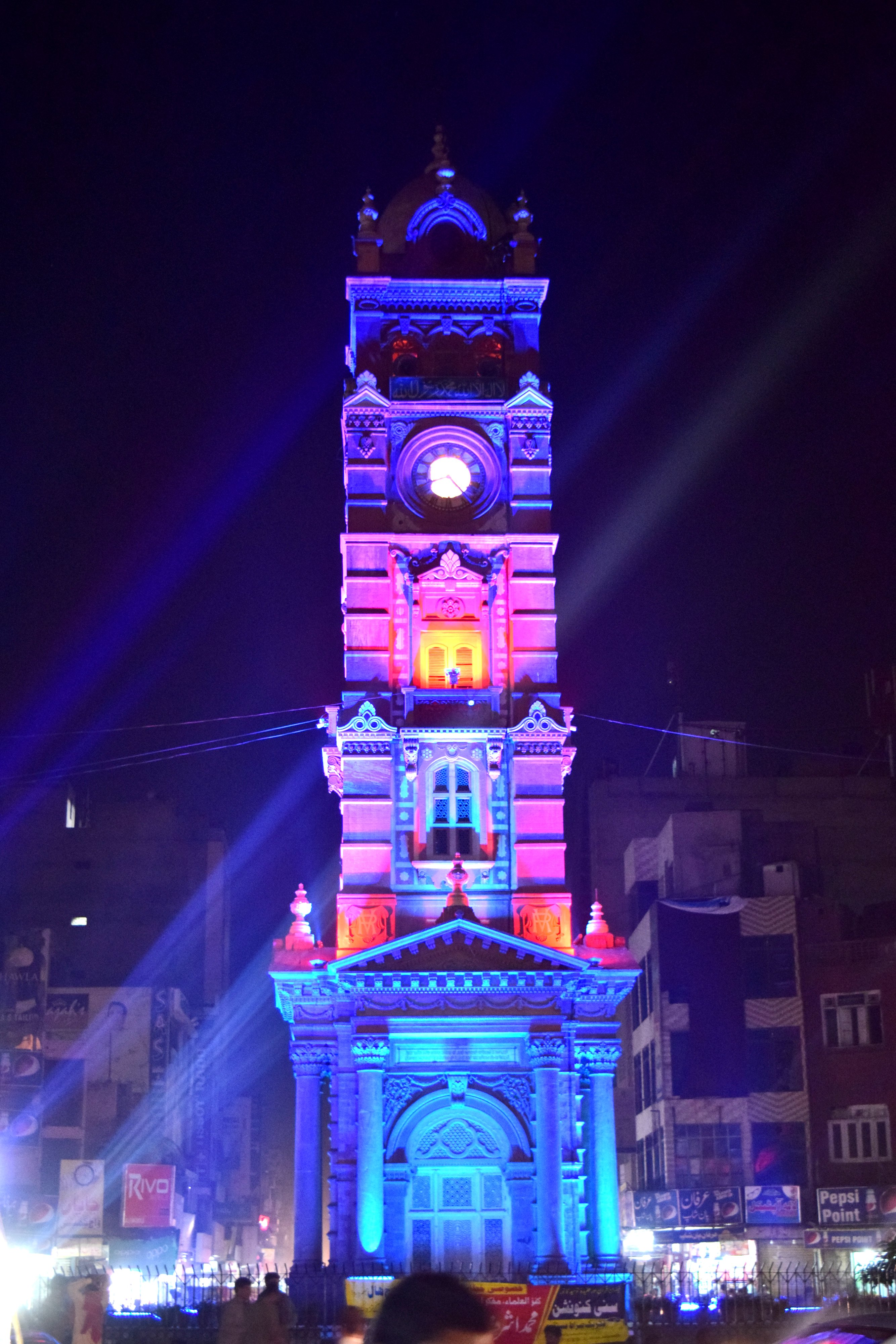 Ghanta Ghar,Faislabad Pakistan